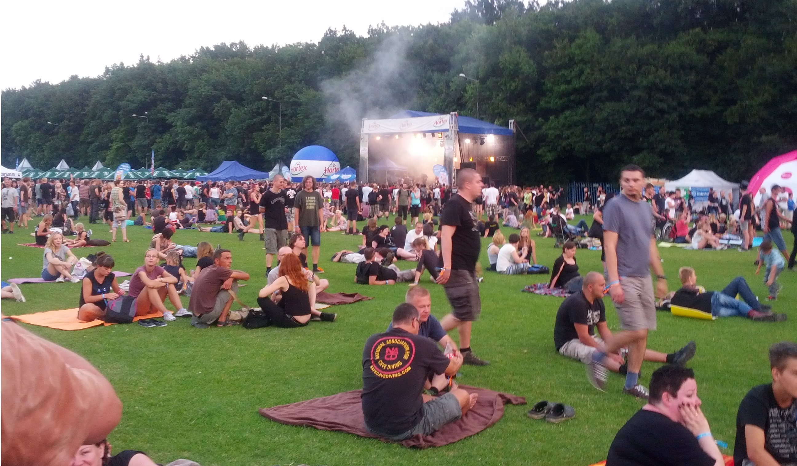 Jarocin Festiwal 2014